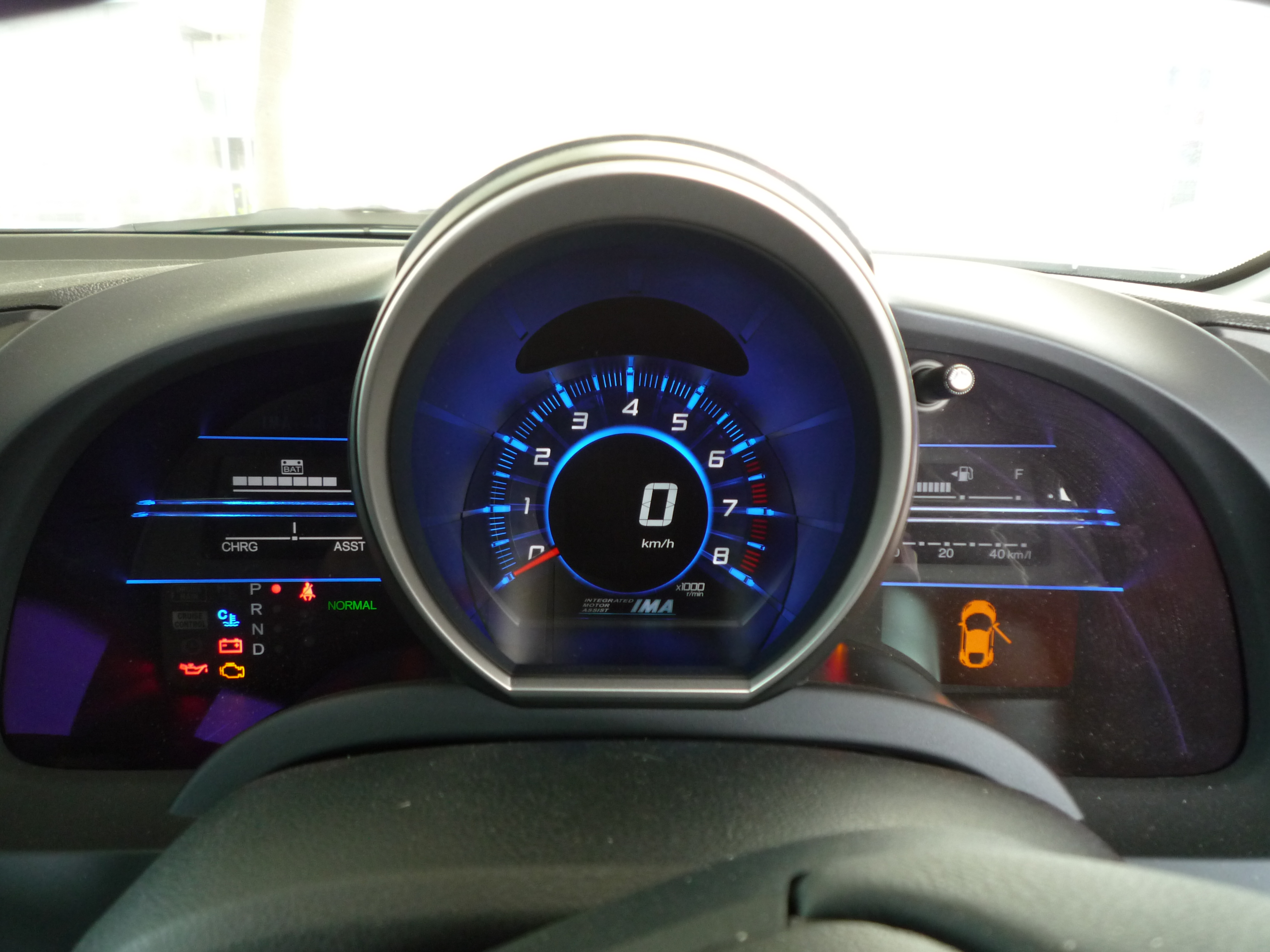 Dashboard of Honda CR-Z.